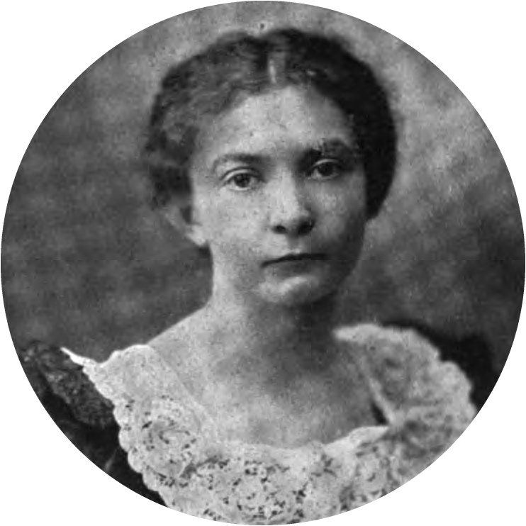 Mary Johnston.